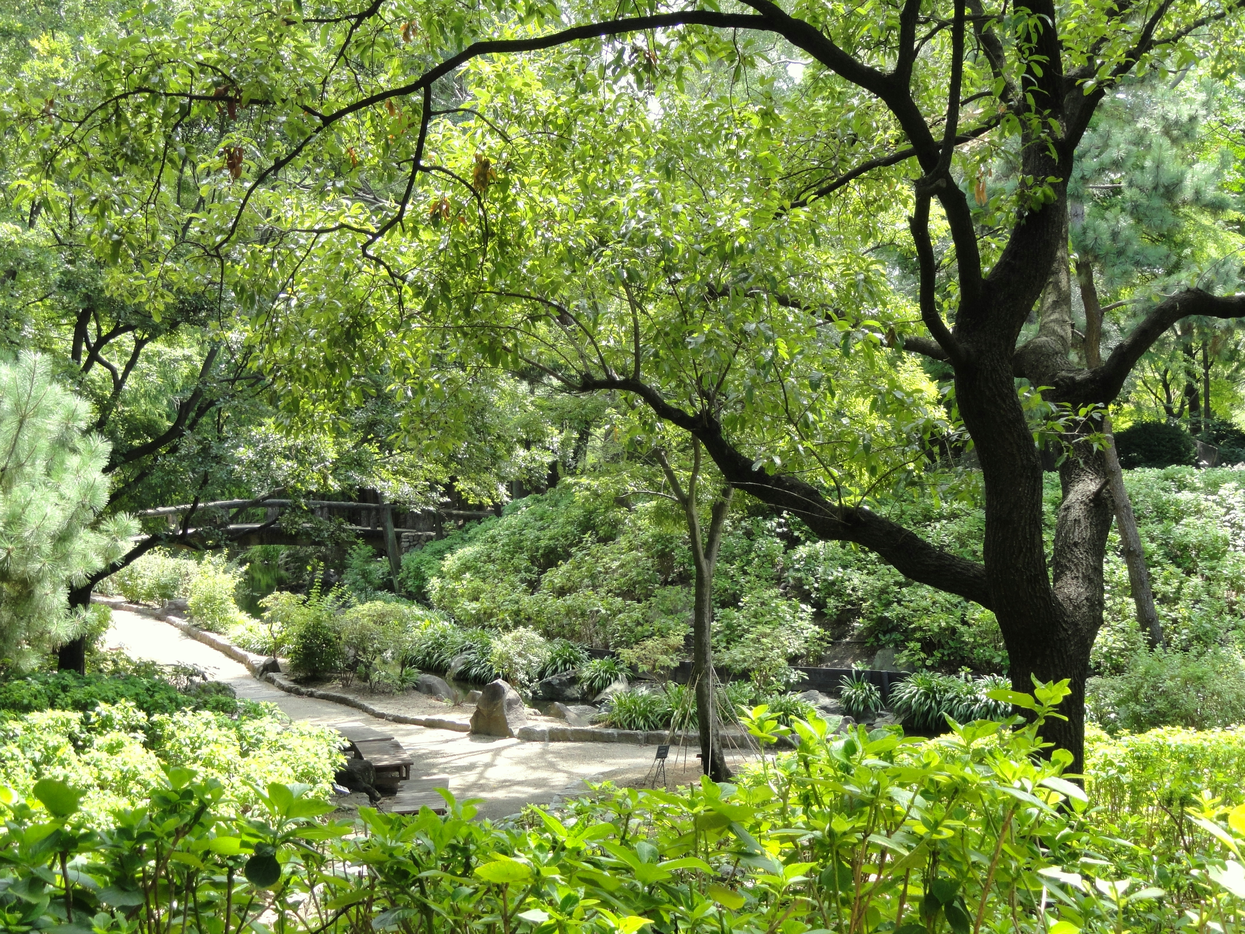 Nagai Botanical Garden (大阪市立長居植物園), Osaka, Japan.